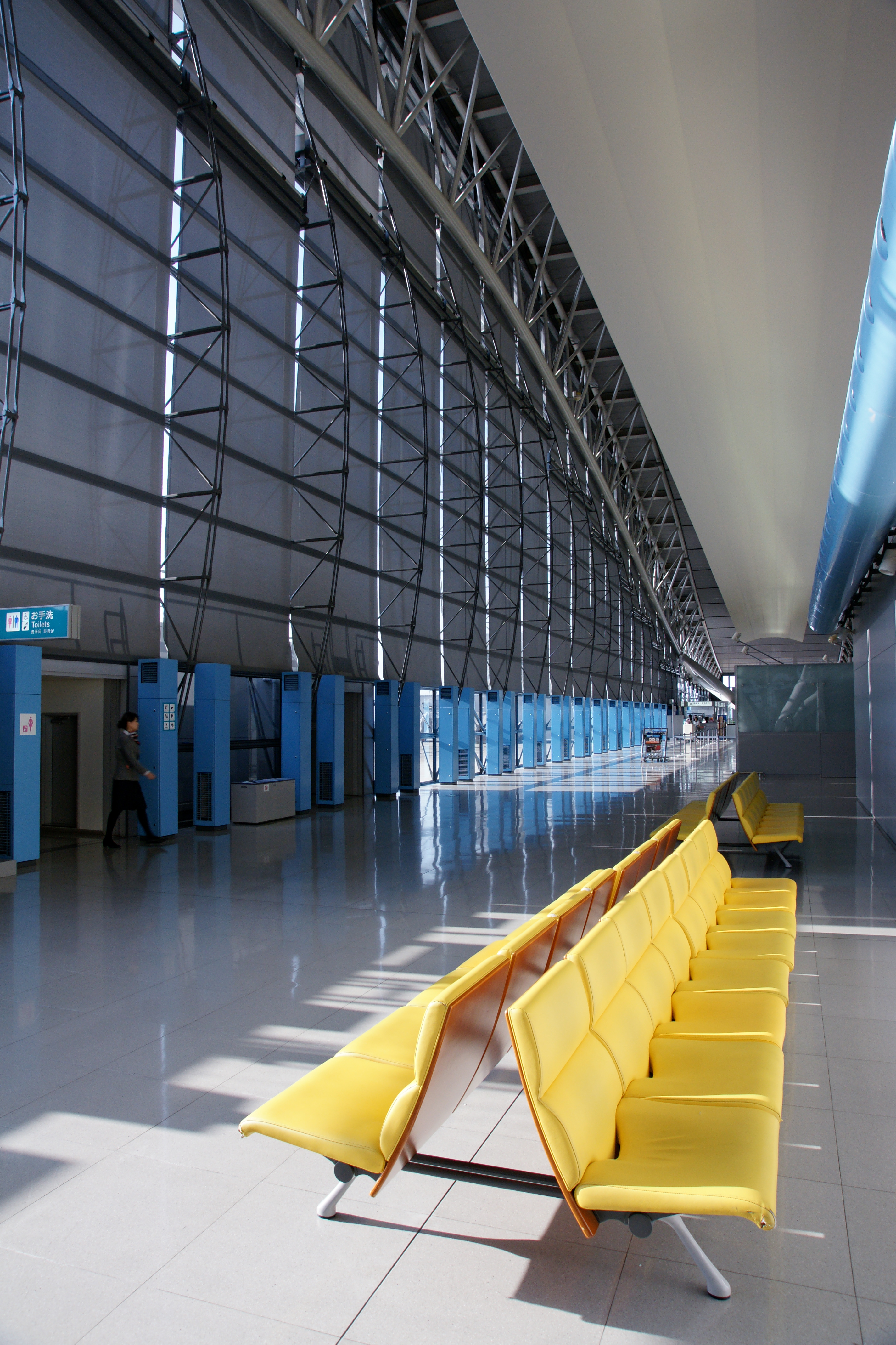 Kansai International Airport, Izumisano, Osaka prefecture, Japan